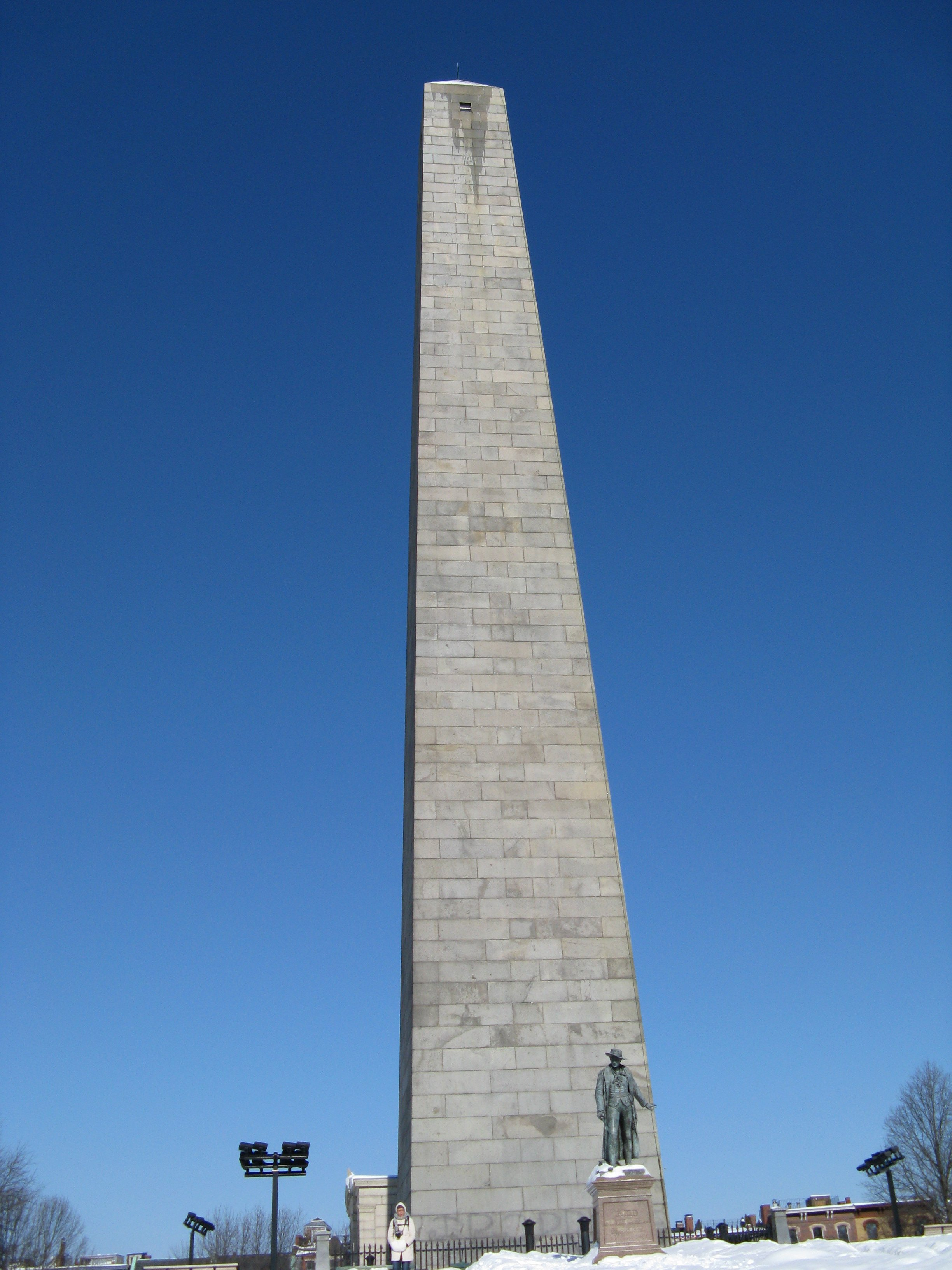 Bunker Hill Monument, Boston, MA